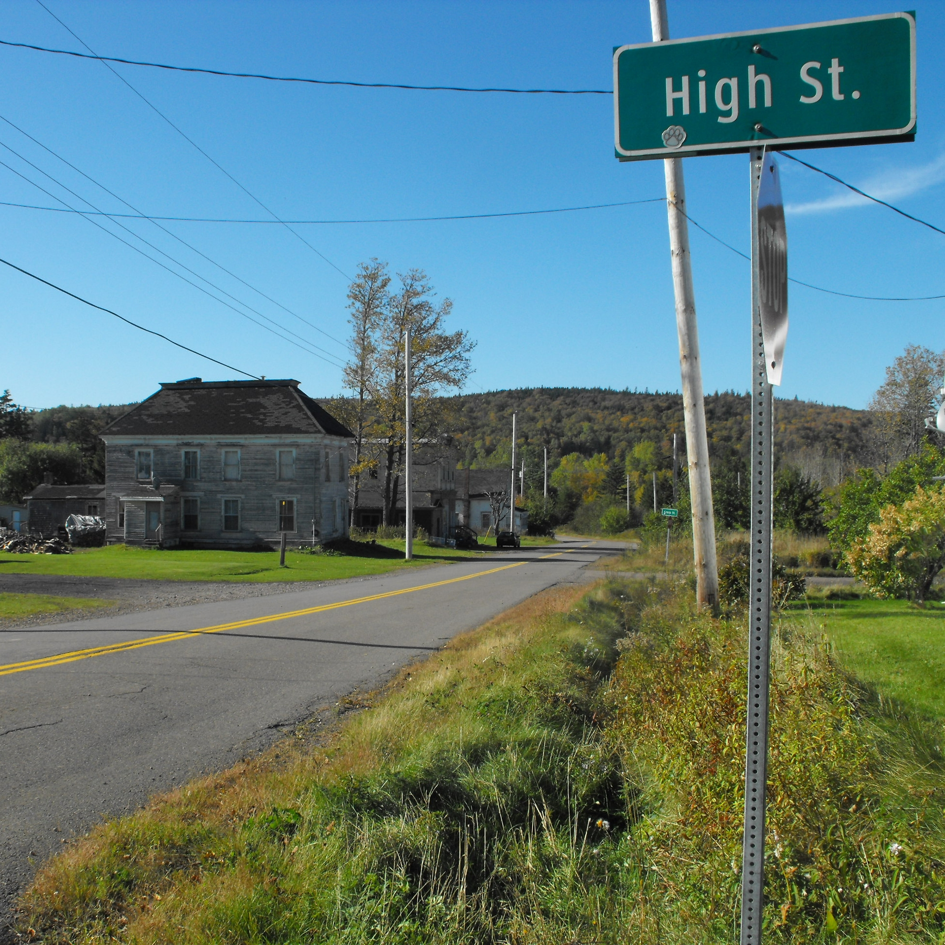 Londonderry, Nova Scotia, streetscape